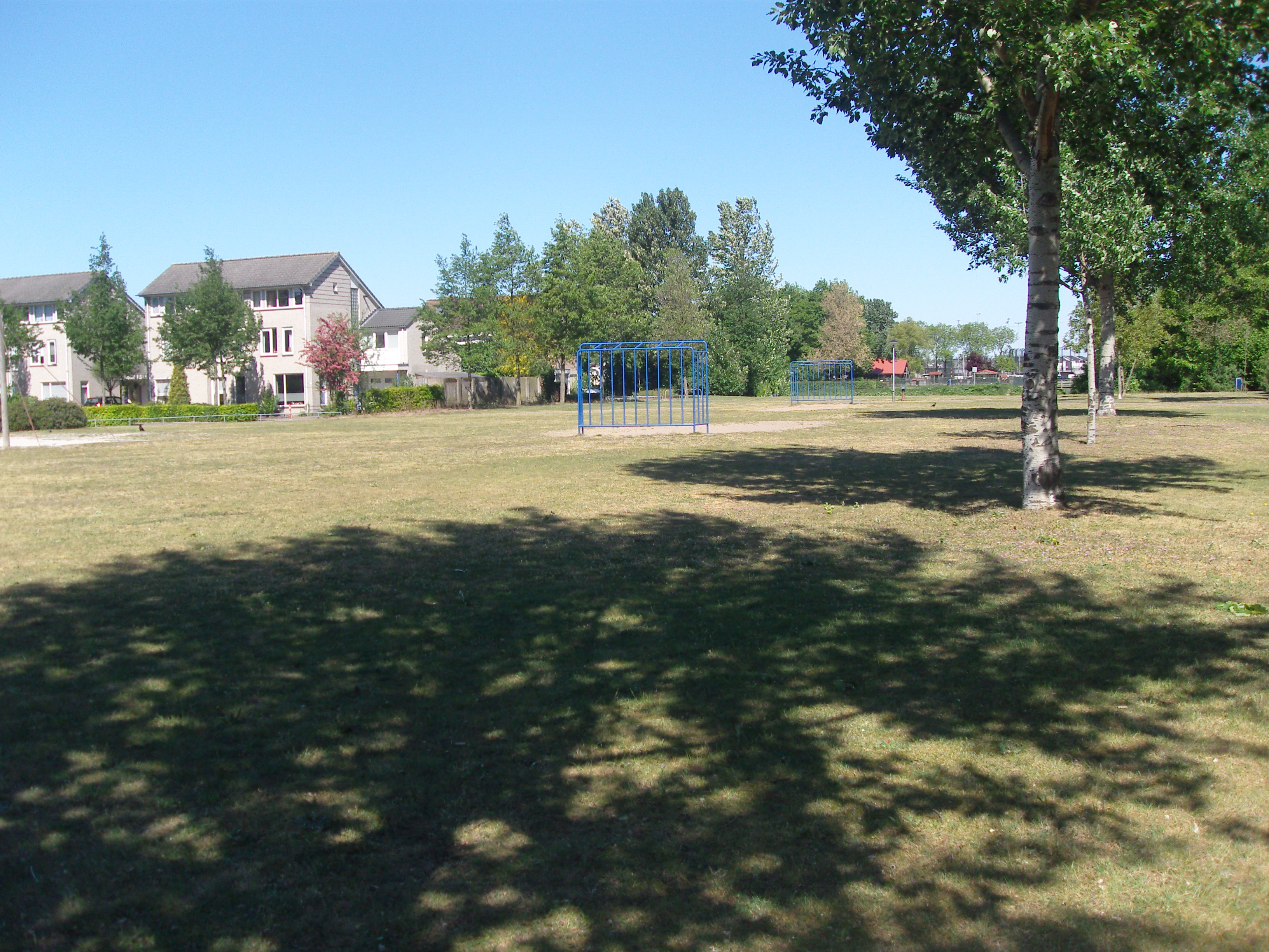 Ridder Jan van Baexenpark at Rosmalen, The Netherlands